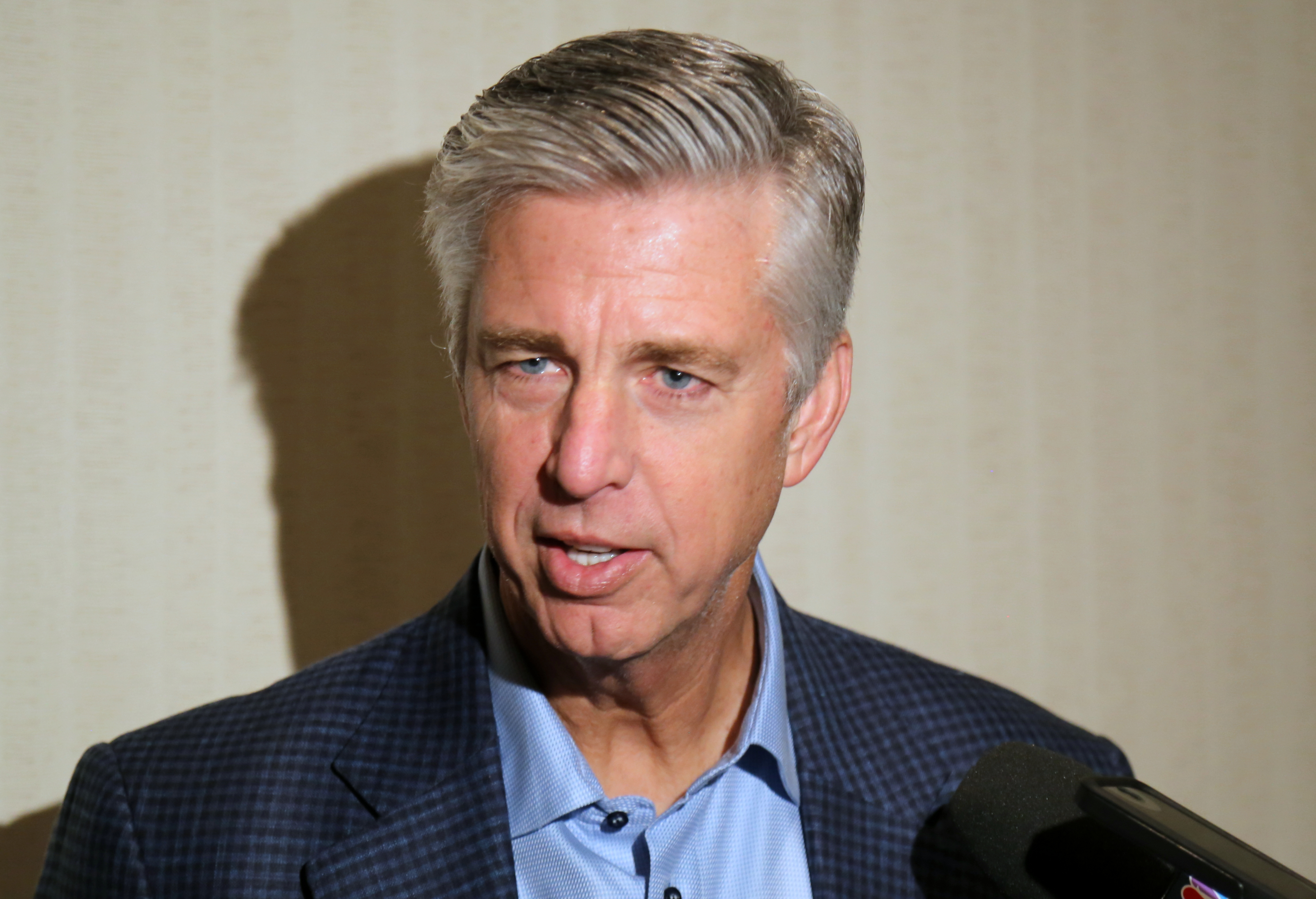 Red Sox President of Baseball Operations David Dombrowski talks to reporters at the #WinterMeetings.